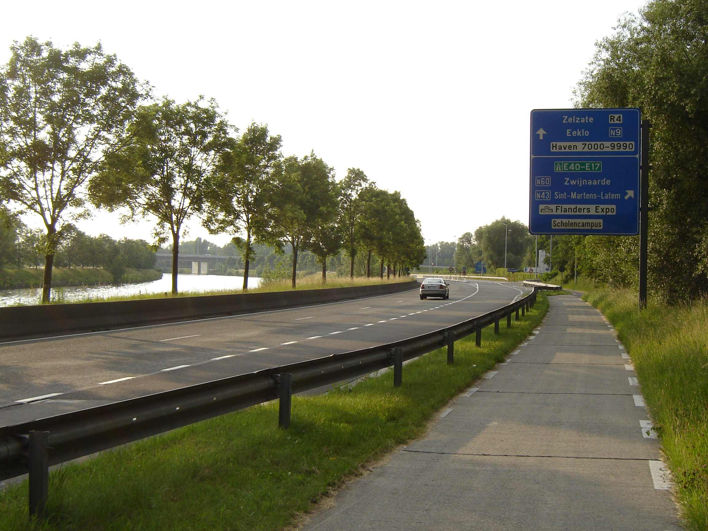 Exit from R4 in Gent, Belgium. This is the junction with the B402 to the A10/E40 highway and exposition centre Flanders Expo